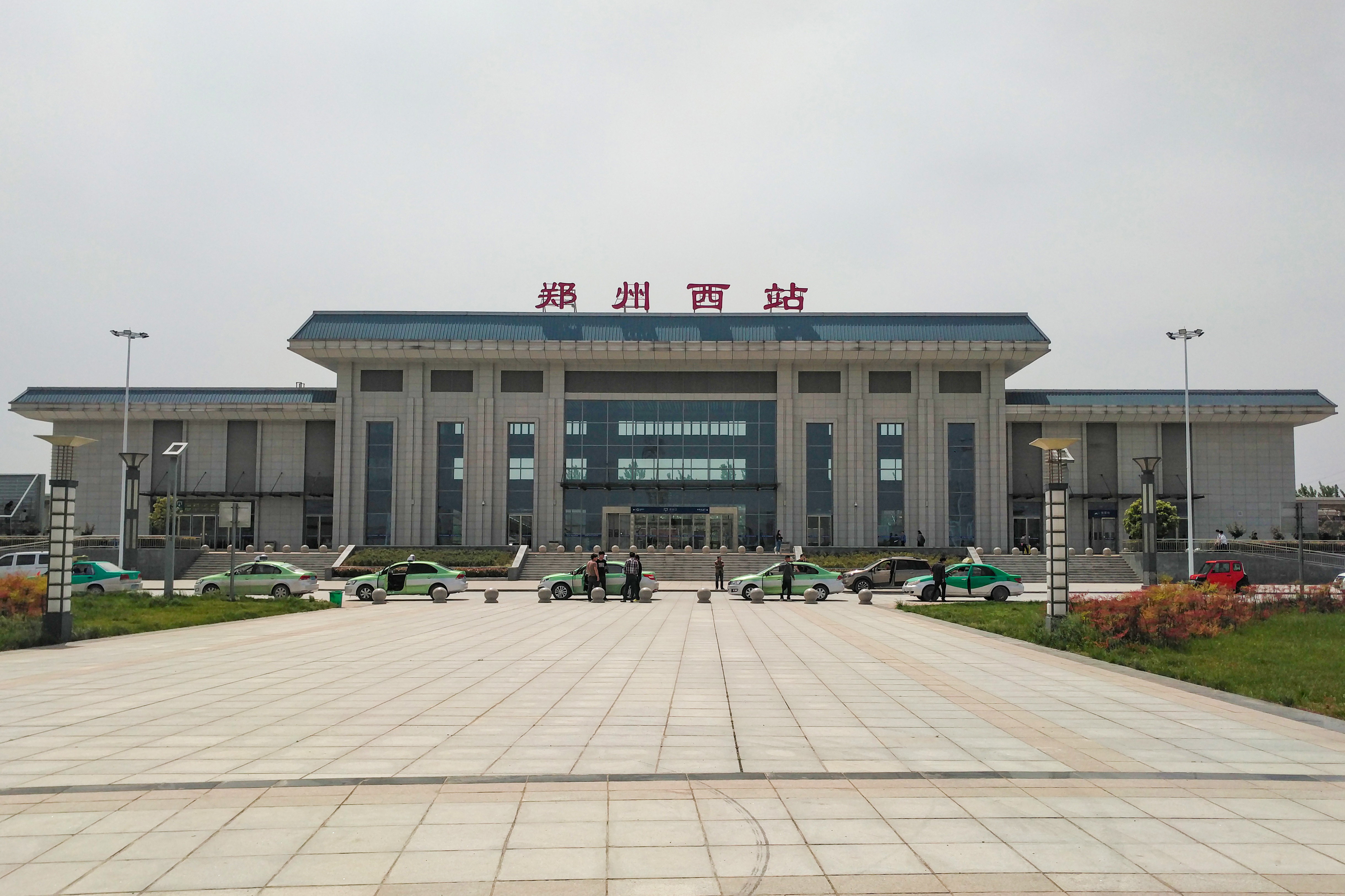 Here is the building of Zhengzhou West (Xi) Railway Station, which was originally named Xingyang South Railway Station. Only 2 side platforms and 4 tracks.